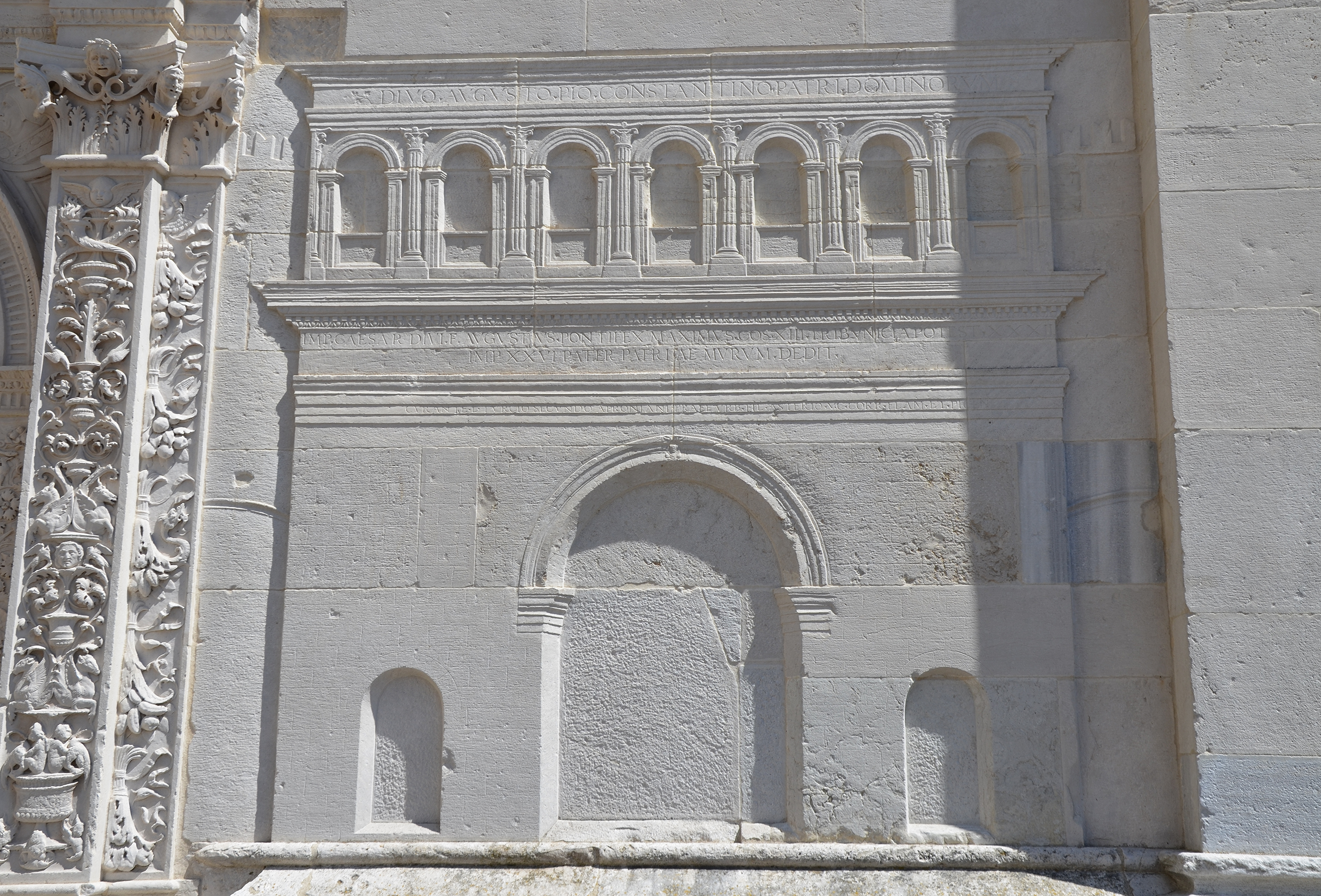 Bas-relief on the facade of the neighbouring church of Saint Michael showing how the Arch of Augustus was originally built, Fano, Italy